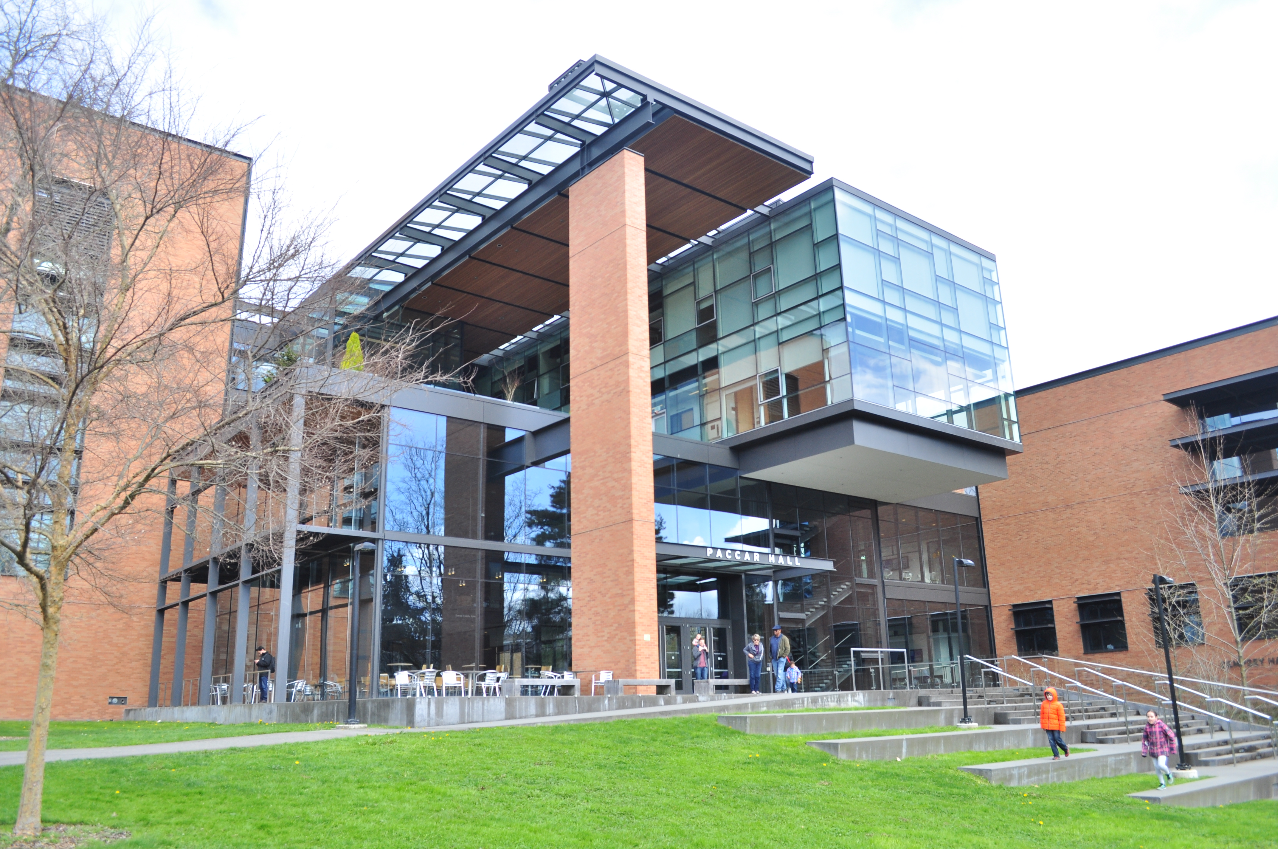 Paccar Hall, University of Washington, Seattle, Washington, completed in 2010.